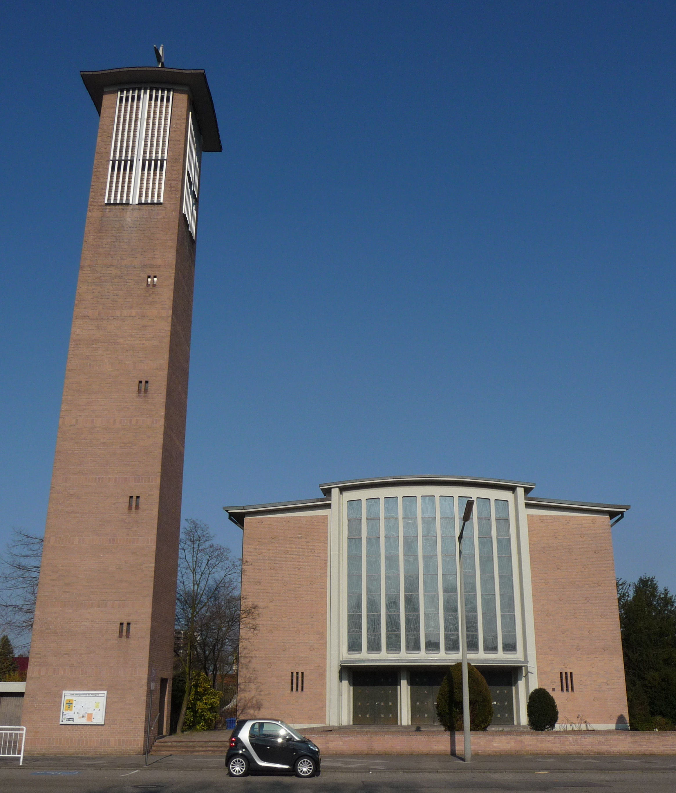 Church in Ludwigshafen, Germany